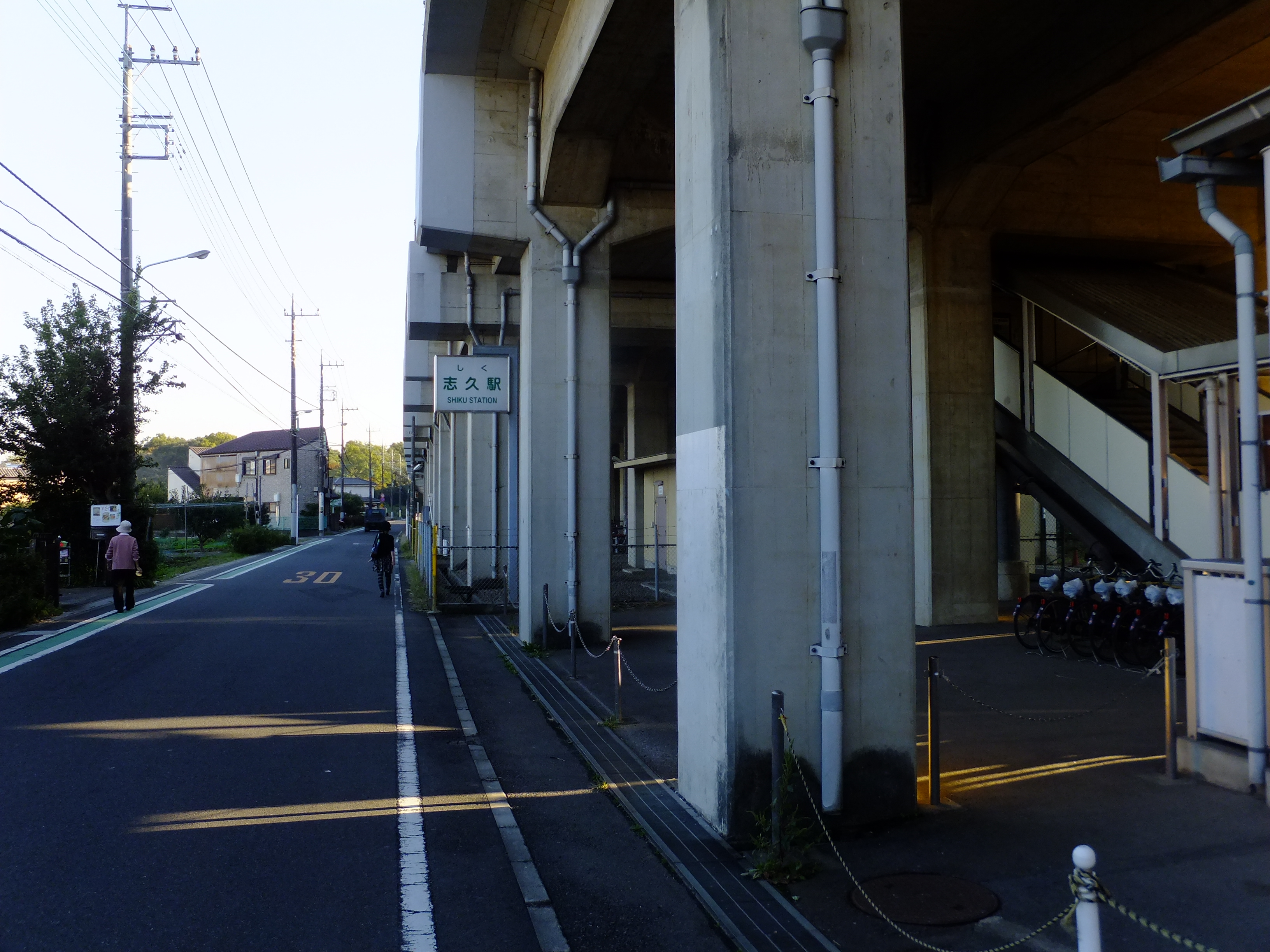 Shiku Station on the New Shuttle Line, in Ina, Saitama, Japan